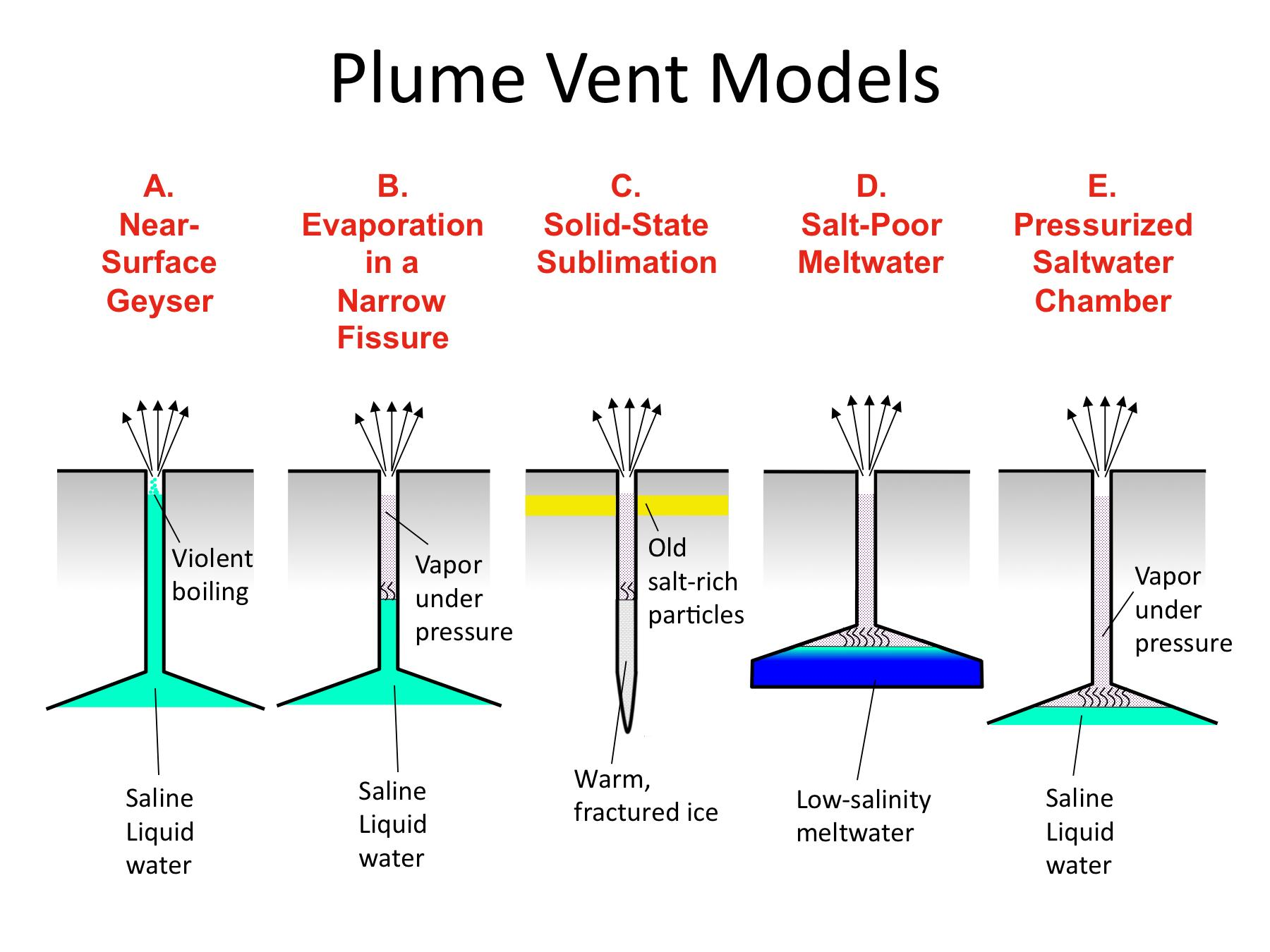 5 models of plume vent to analyze